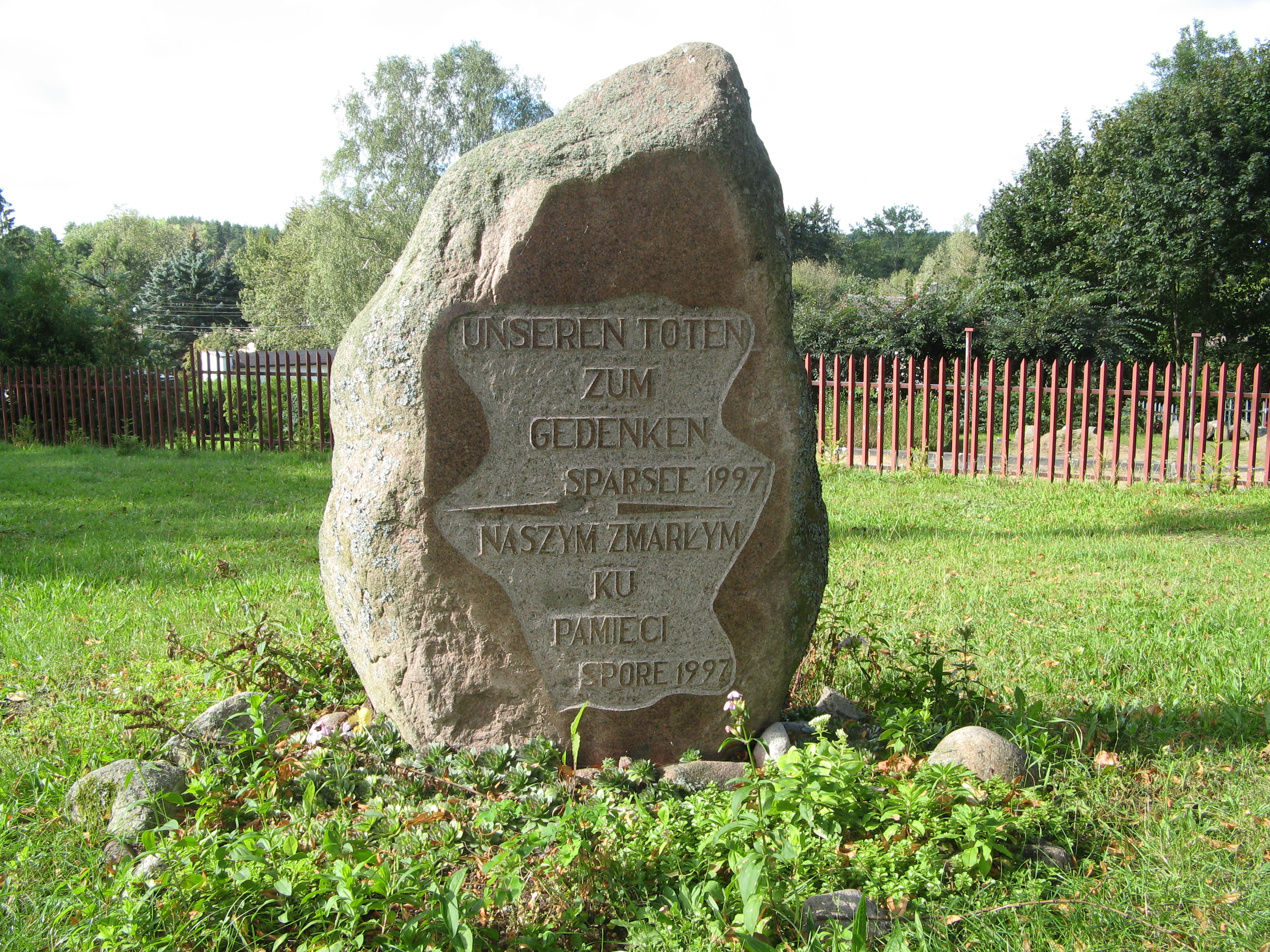 Commemorative Stone near the church of Spore, Poland (before 1945 german Sparsee, Pommern